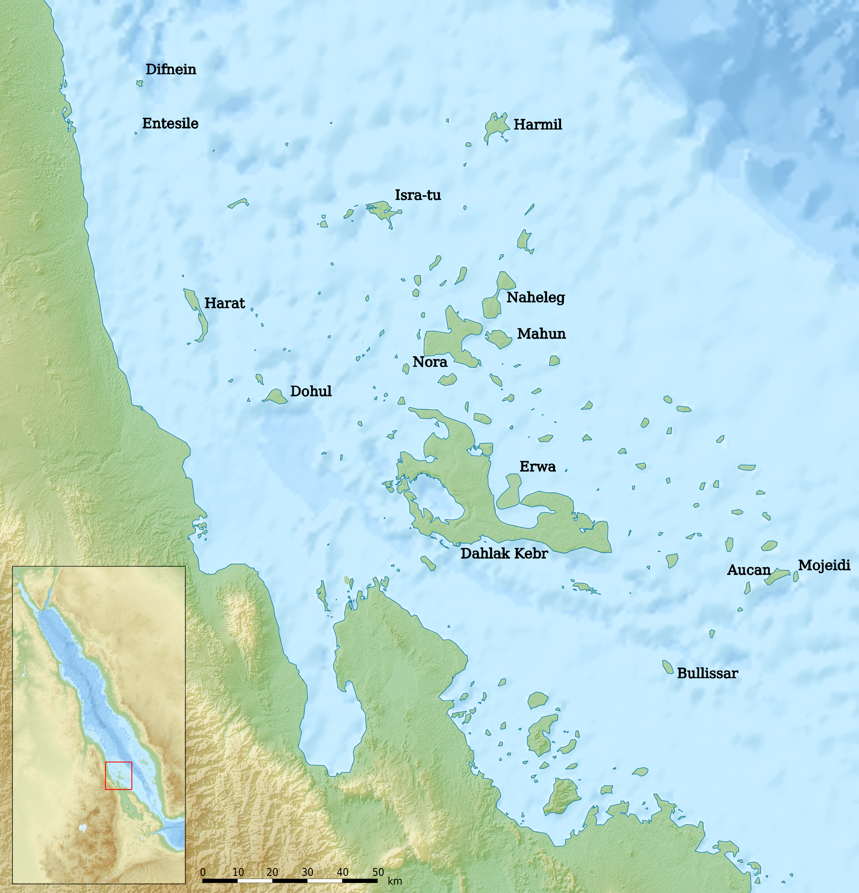 Map of the Dahlak Archipel